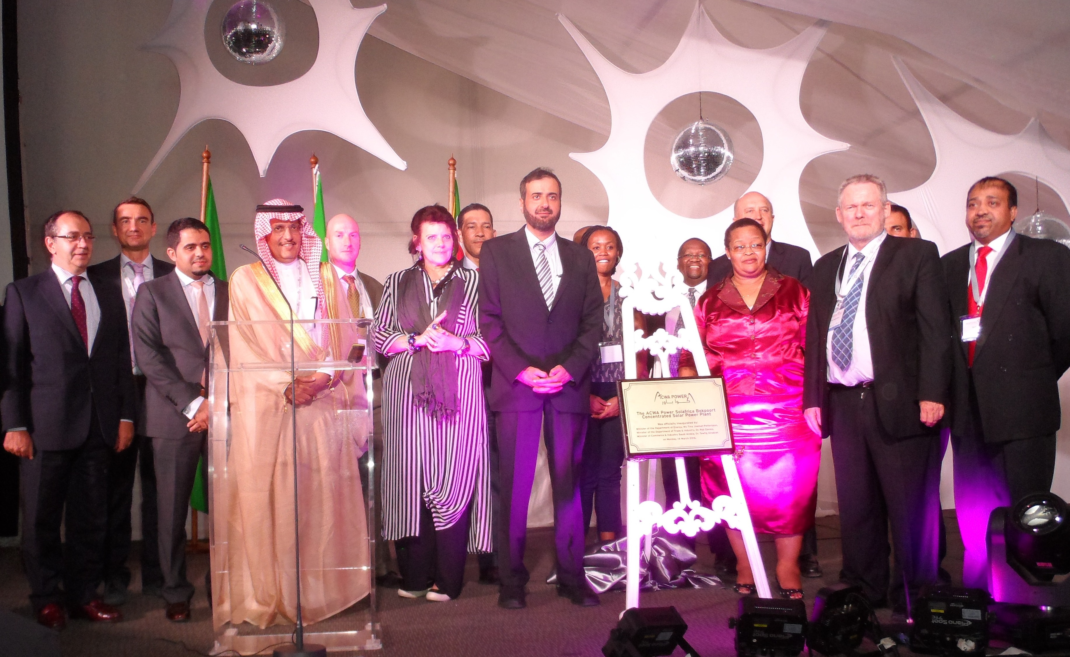 50 MW Bokpoort CSP Launch on 16th March 2016 Group with SA Trade and Industry Minister, Mr. Rob Davies, Dr. Tawfig Fawzan Alrabiah, the Kingdom of Saudi Arabia’s Minister of Commerce & Trade, ACWA Power Chairman, Mohammad Abunayyan, DoE IPP Office Head Karen Breytenbach, Northern Cape Premier Sylvia Lucas, HE Ambassador of Spain I. Sanz, ACWA Power Southern Africa Managing Director Chris Ehlers, Board members Mike Goldblatt, Anthony Hewat, Teshpiso Mufamadi and project company CEO Nandu Bhula amongst others.